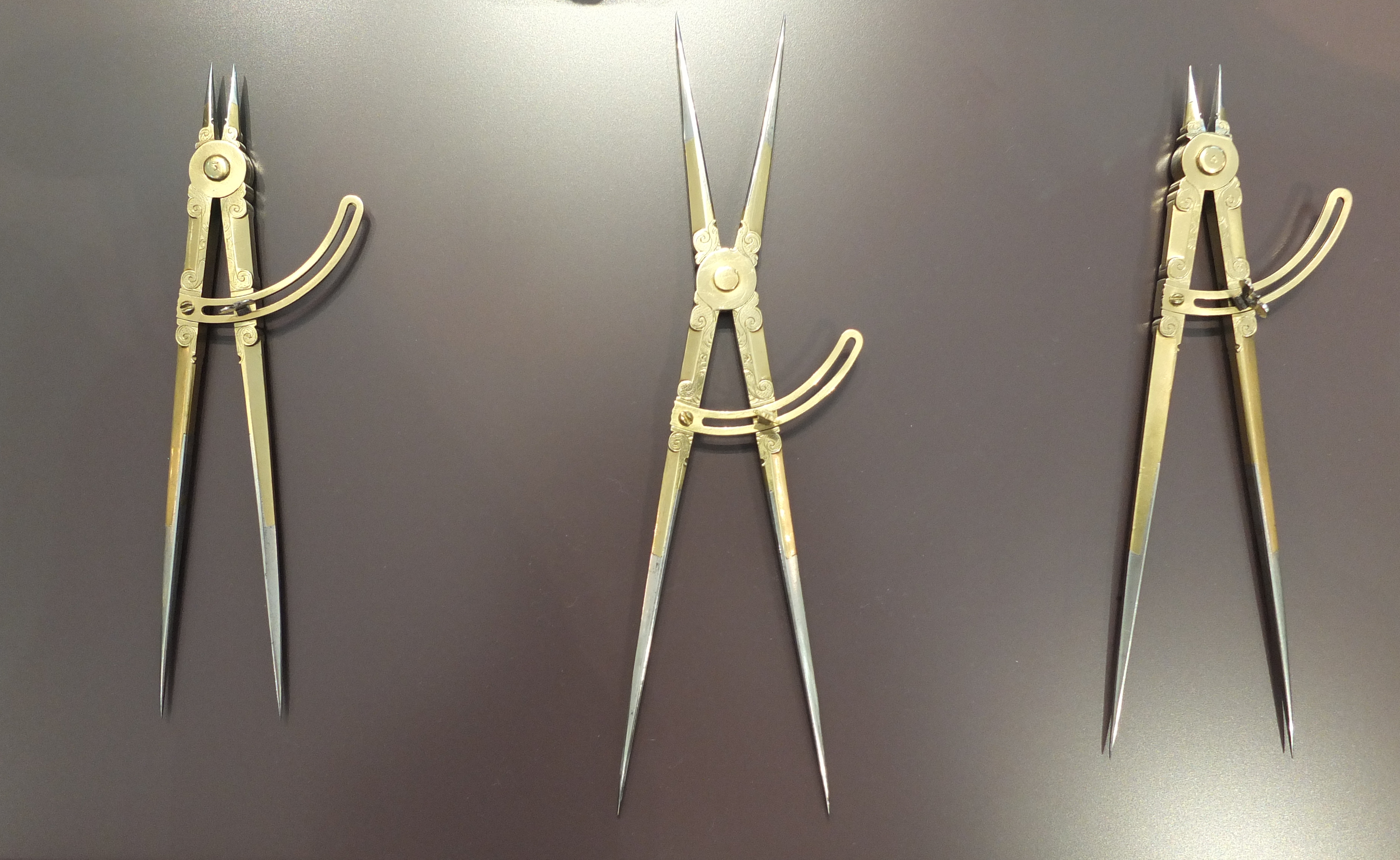 German reduction compasses, ca. 1580, of ratios 1:5, 1:2, 1:6 in the Mathematisch-Physikalischer Salon in the Zwinger in Dresden.